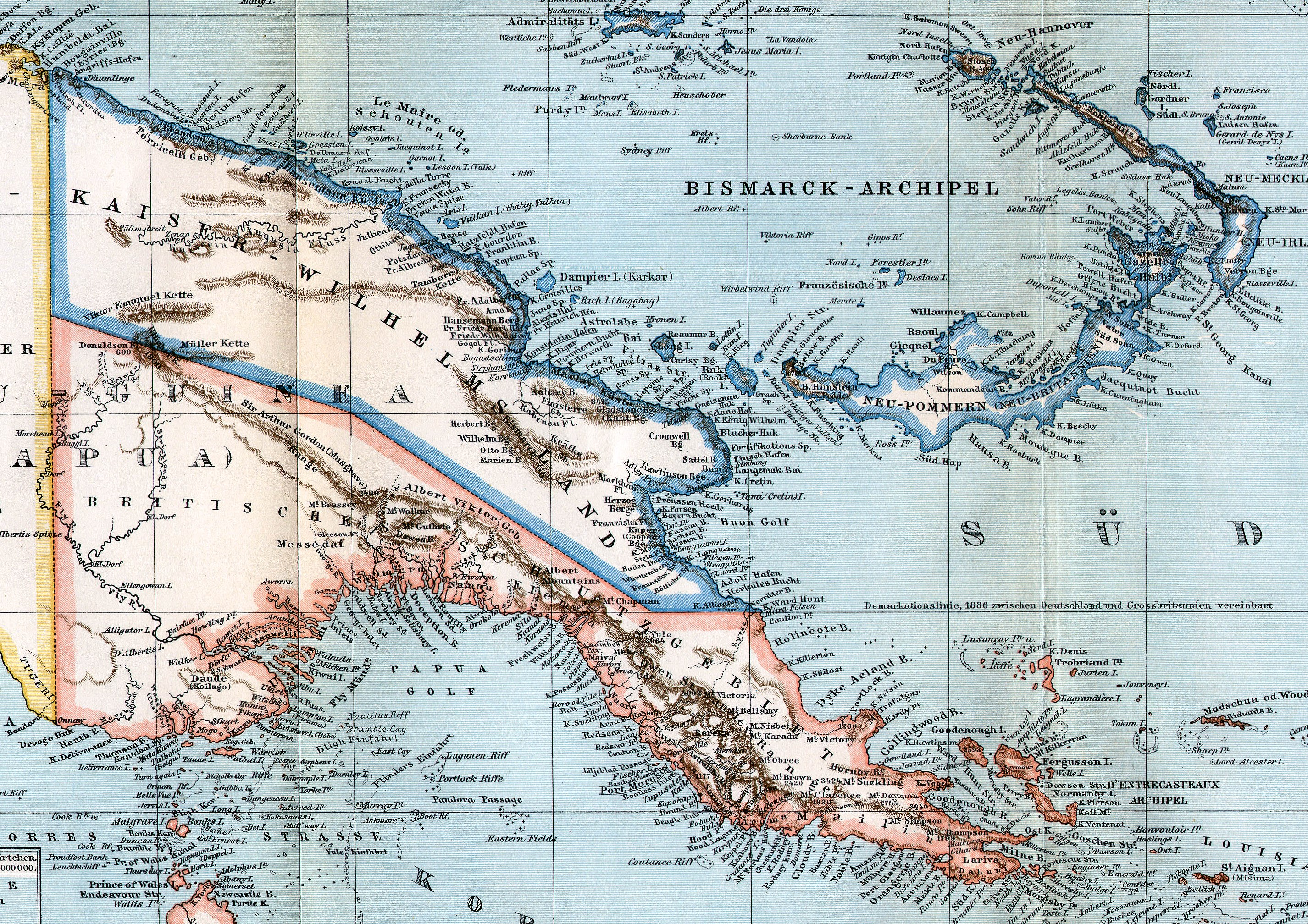 Map showing mainly former Kaiser-Wilhelms-Land (German New Guinea) and British Papua New Guinea; crop of File:Kaiser-Wilhelms-Land-Brockhaus b10 nr0030a hfid 5181872.jpg